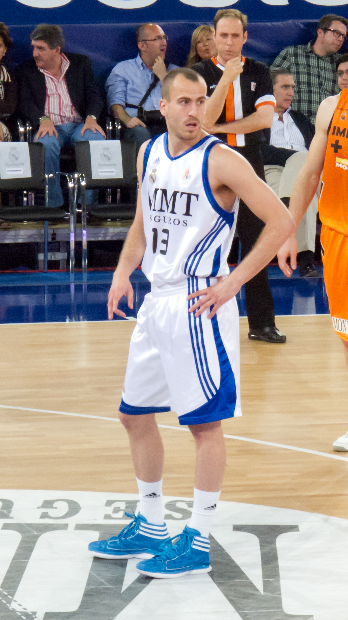 Sergio Rodríguez, Real Madrid player.